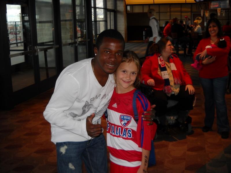 Marvin Chávez (left)